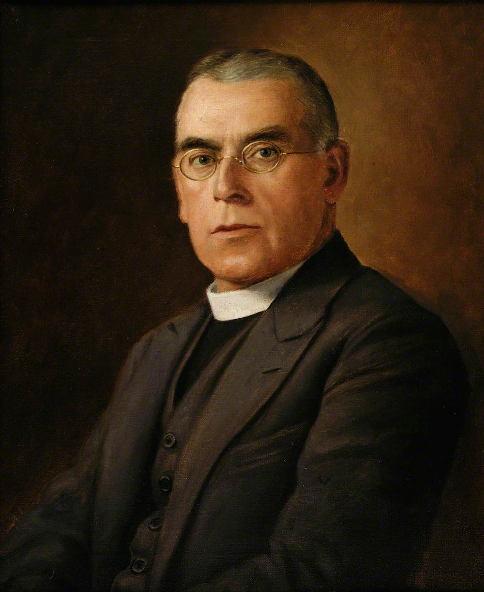 A painting from the Framed Works of Art collection at the National Library of wales.